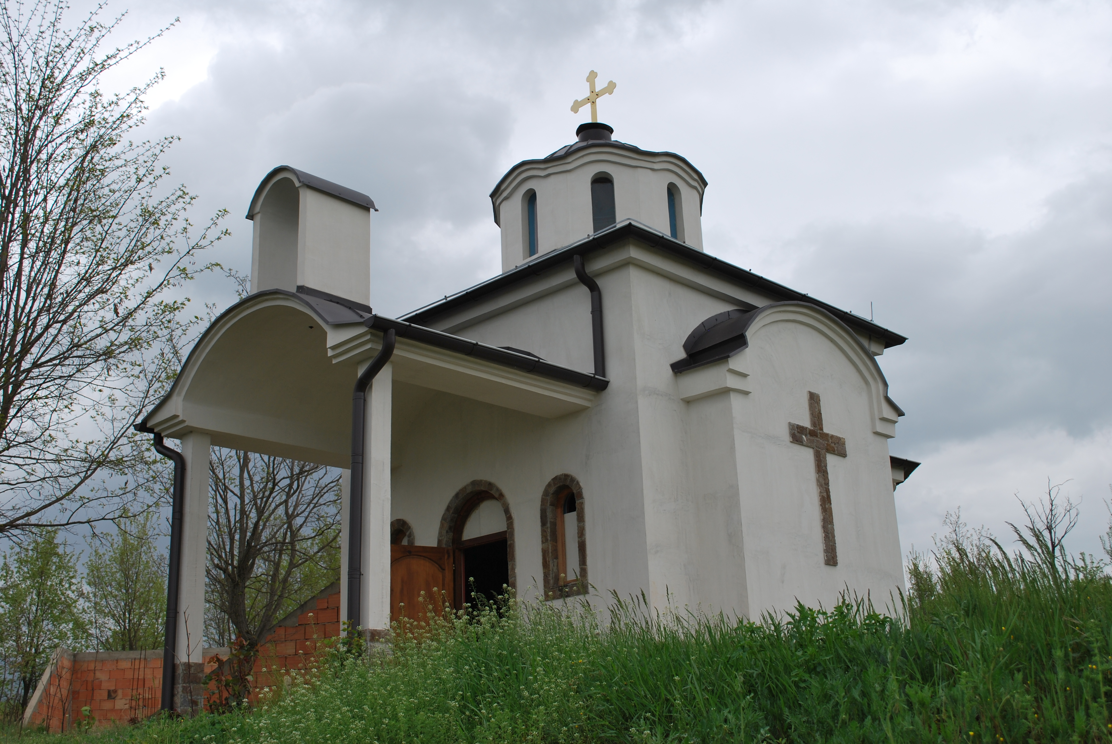 St. Paul Church in Park Ginovci near Kriva Palanka, Macedonia